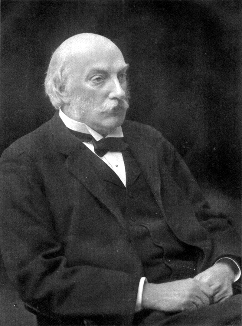 John William Strutt, 3rd Baron of Rayleigh, British physicist.